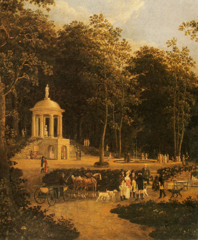 Die Napoleonshöhe im Steiger bei Erfurt (The Temple to Napoleon in the Steigerwald forest at Erfurt) by Nikolaus Christian Heinrich Dornheim (1772–1830). Oil on canvas, 1812